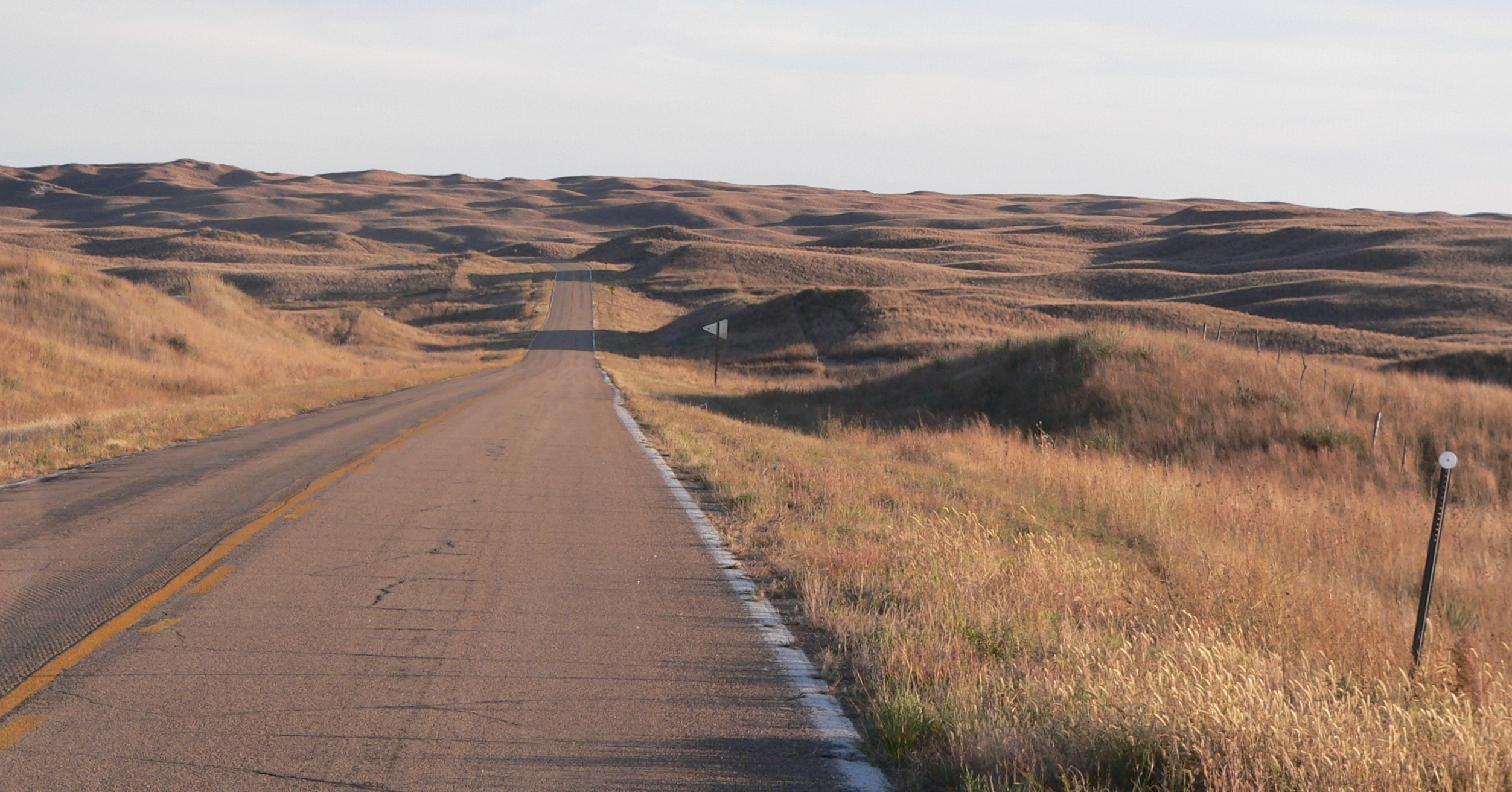 Nebraska Sandhills in Hooker County, Nebraska, seen from Nebraska Highway 97 south of the Dismal River.